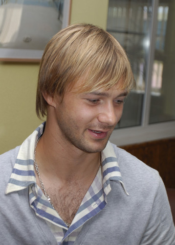 Dmitry Sychev in Domodedovo airport after away match with Croatia.